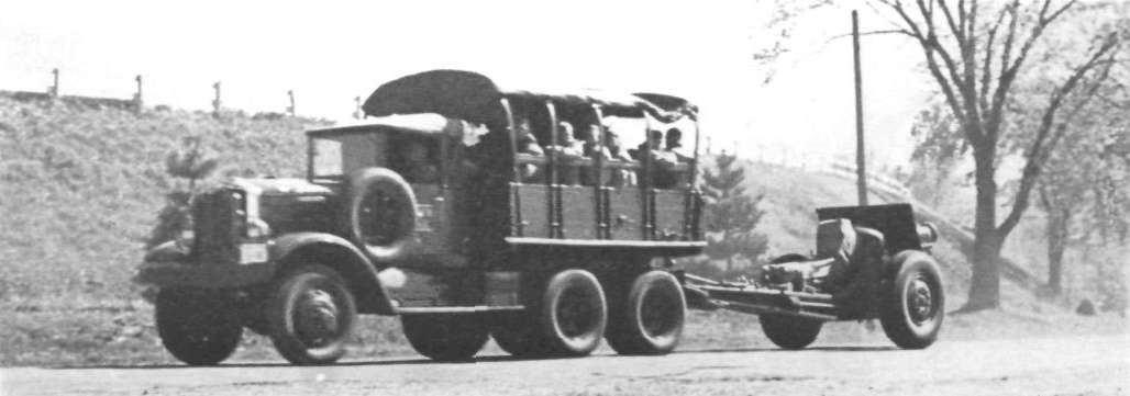 Indiana 16x6 4-tonner towing a 155-mm howitzer.